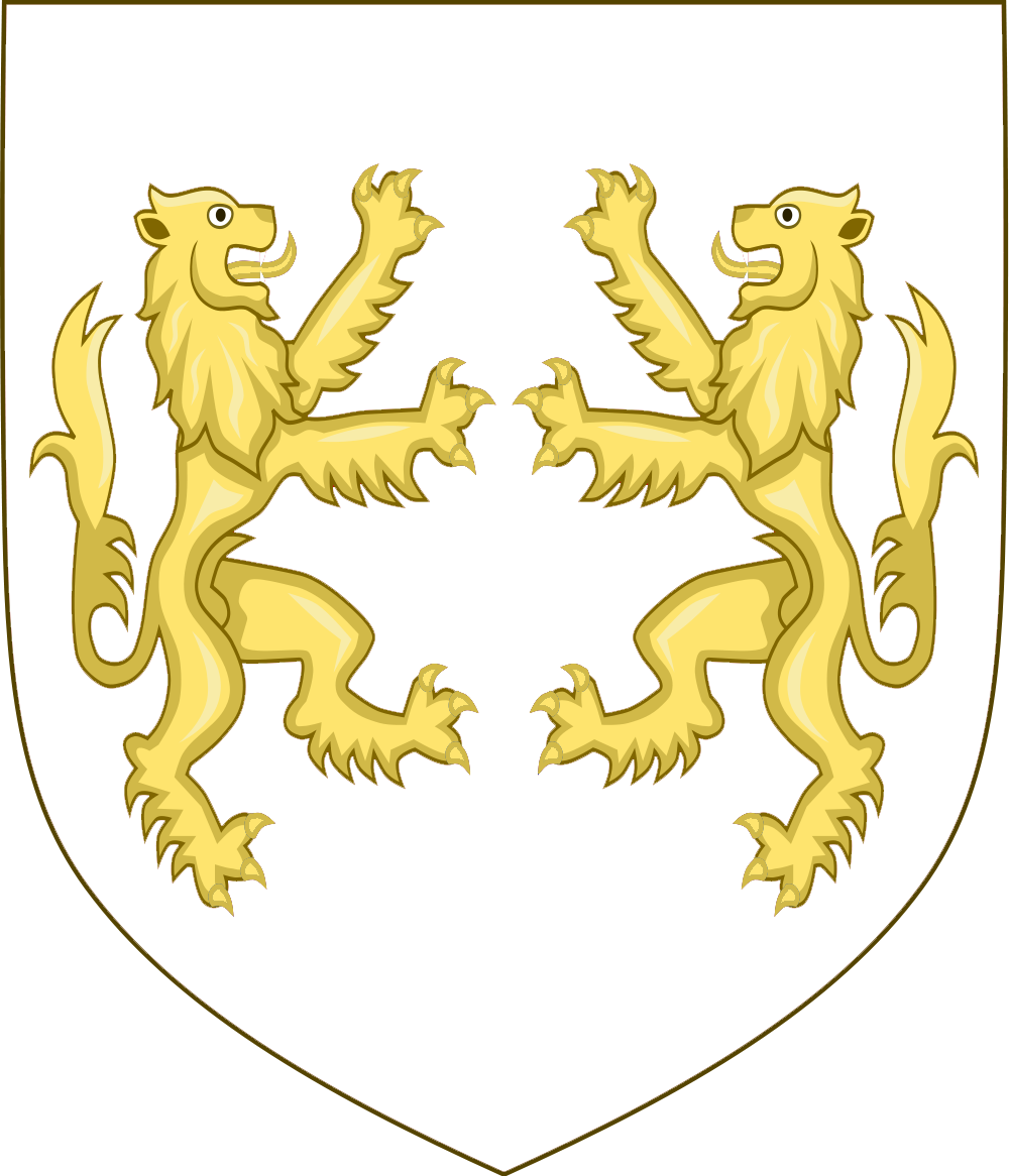 Coat of arms of the Collins.